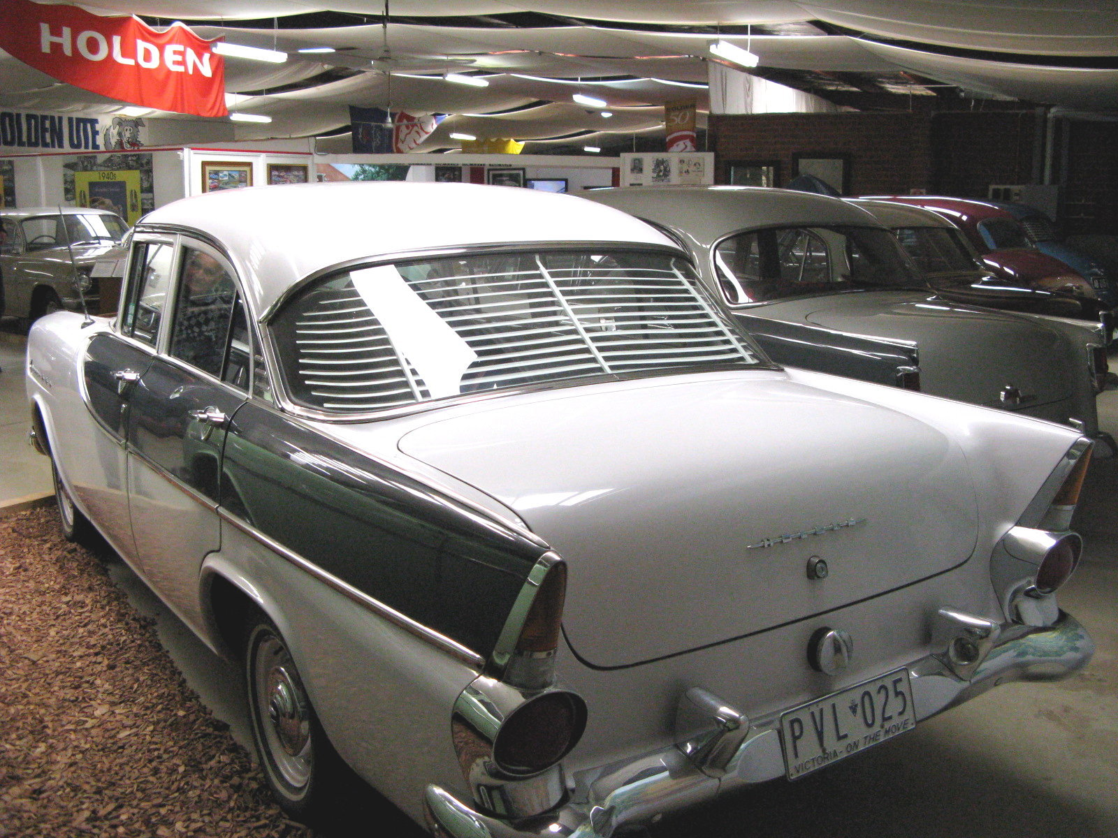 1960 Holden FB Special sedan, photographed at the National Holden Motor Museum, Echuca, Victoria, Australia.